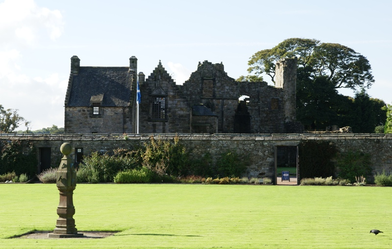 Aberdour Castle, Fife, Scotland. View from north east.